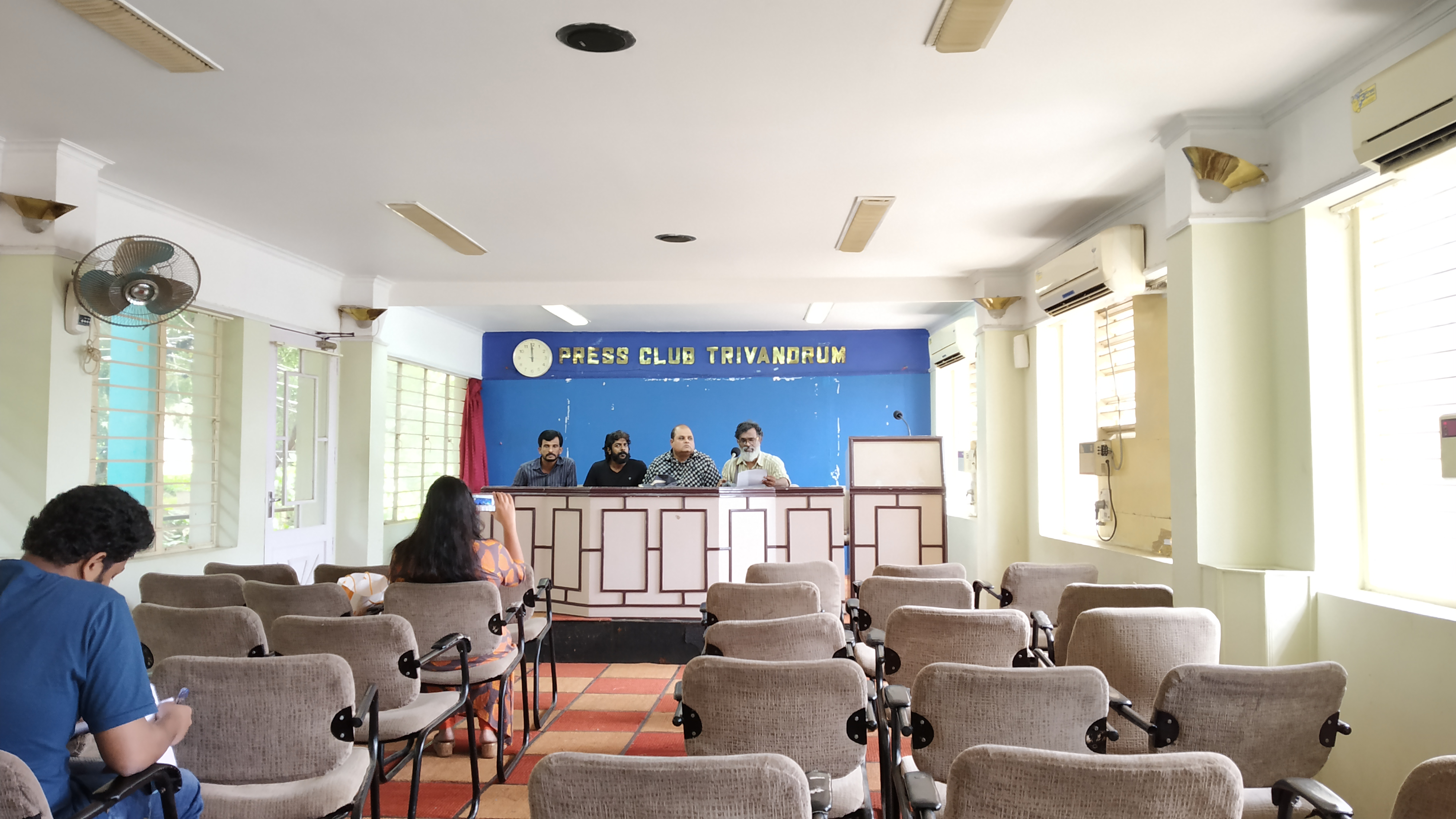 Press Club, Trivandrum